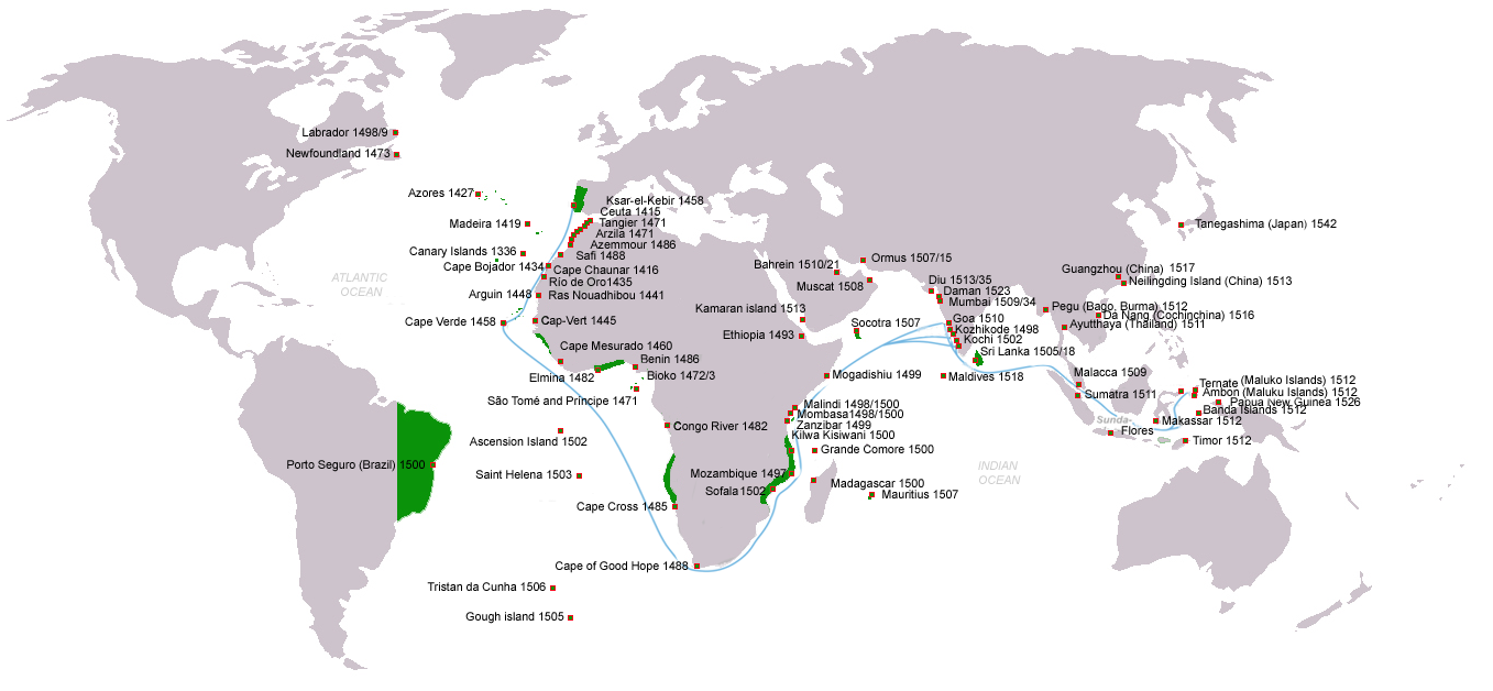 Portuguese discoveries, exploration, contacts and conquests (from 1336 claim for Canary islands to 1543 Tanegashima arrival), arrival dates stated; main sea routes to the Indian Ocean (blue); Territories claimed under king John III of Portugal rule c.1536(green); English version